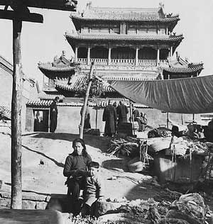 Baoding Dacige Pavillion.